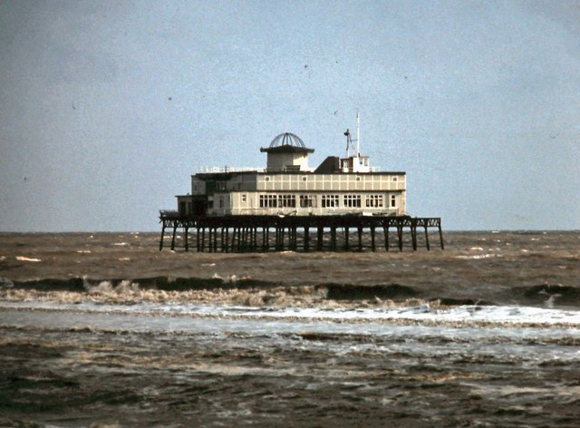 The remains of Skegness pier 1979 On 11th January 1978, Skegness pier along with the piers at Margate, Herne Bay and Hunstanton, were damaged by a northerly gale with high spring tides.